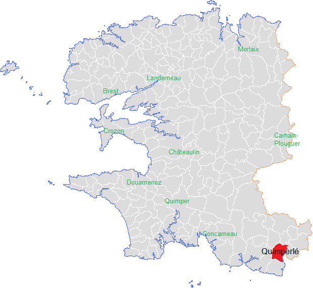 placement Quimperlé in departement Finistère